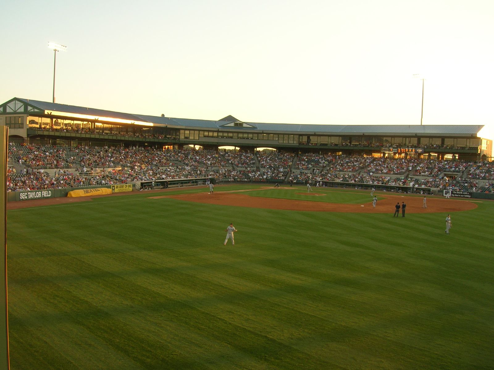 The Iowa Cubs home stadium Principal Park in Des Moines, Iowa